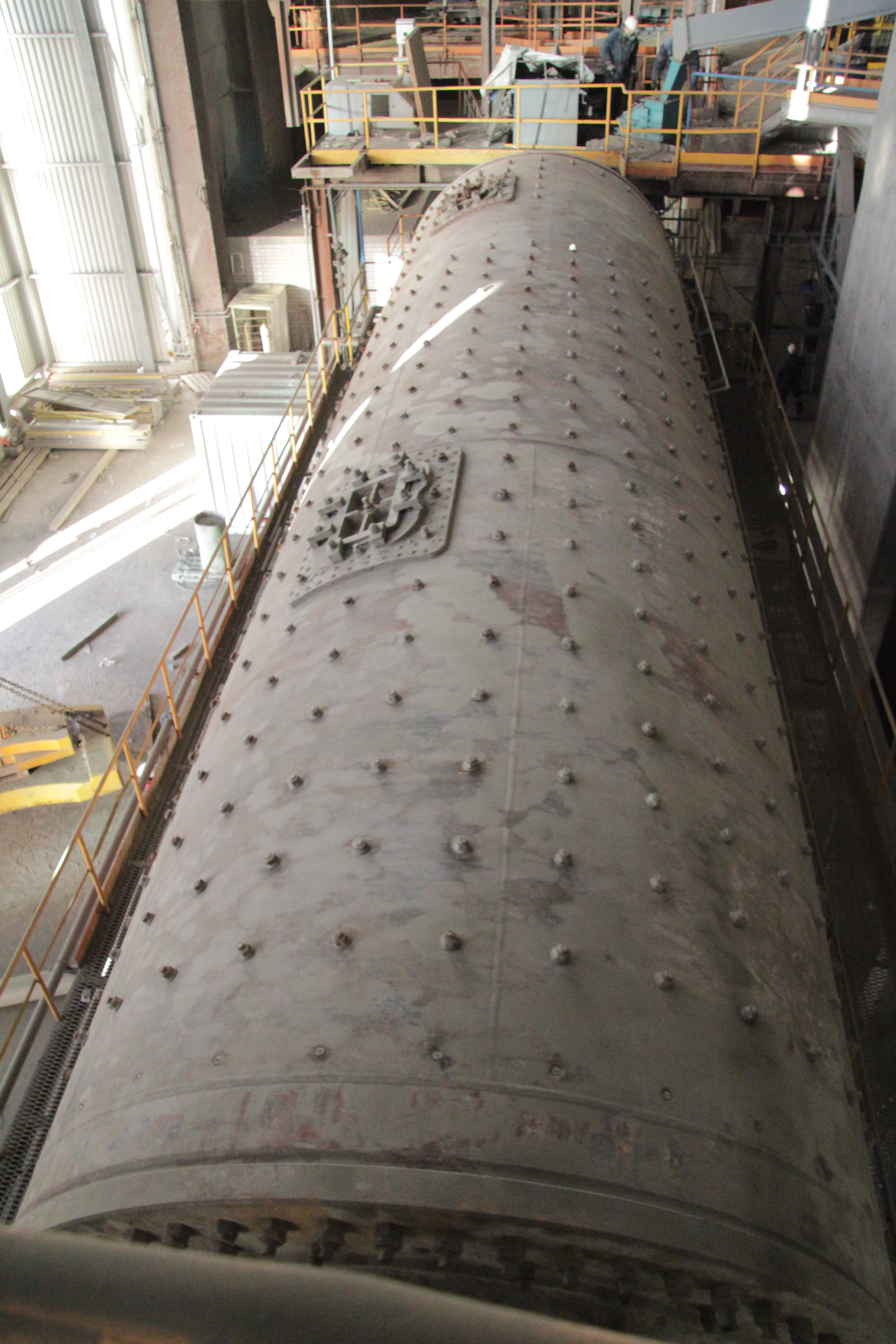 Top view of a cement ball mill.